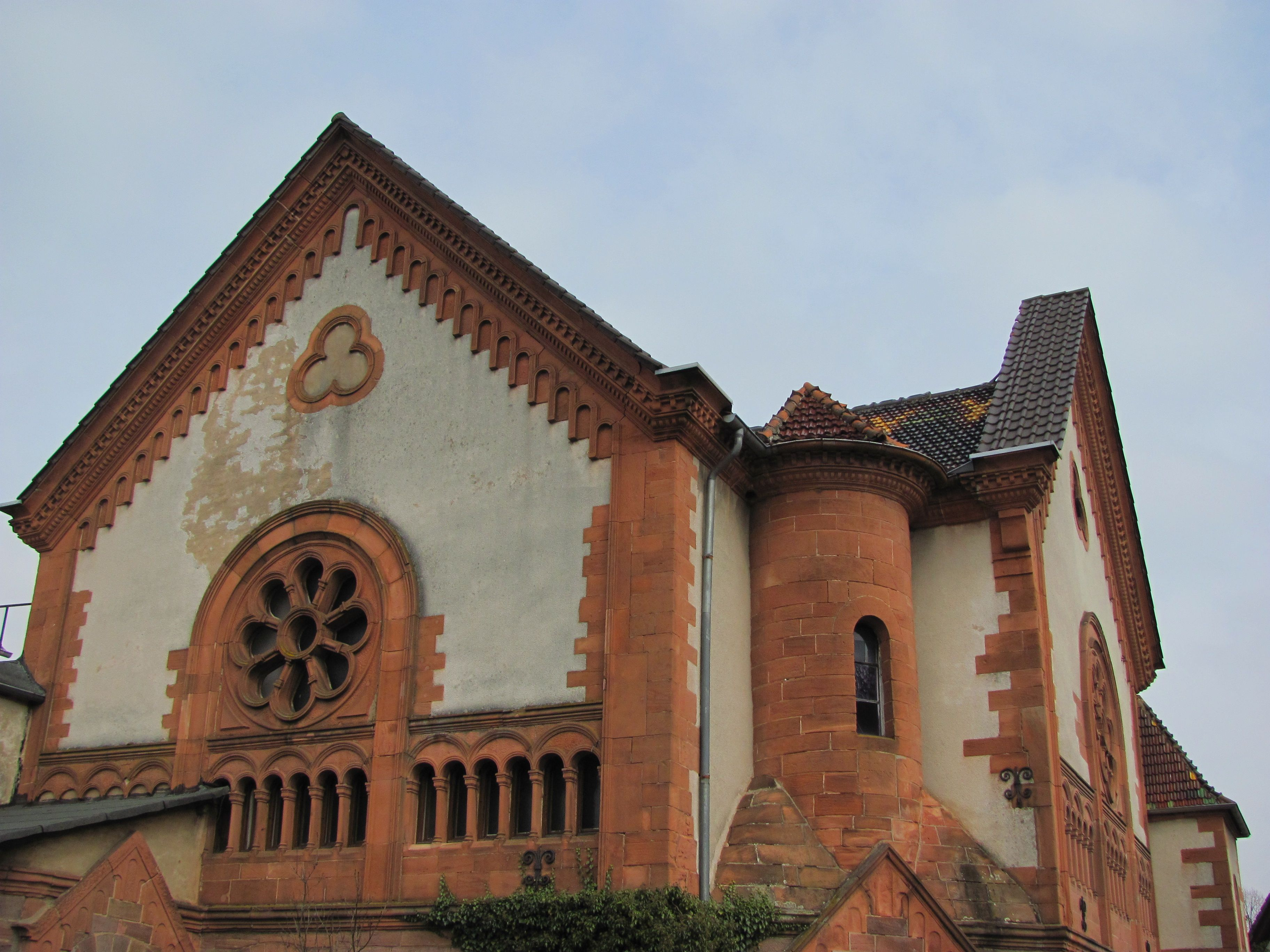 Synagogue of Schlüchtern, Germany